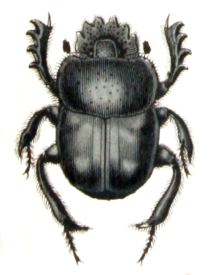 Scarabaeus pius, from Calwer's Käferbuch, Table 20, Picture 12. Taxonomy was updated to 2008, using mostly the sites Fauna Europaea and BioLib. Please contact Sarefo if the determination is wrong!